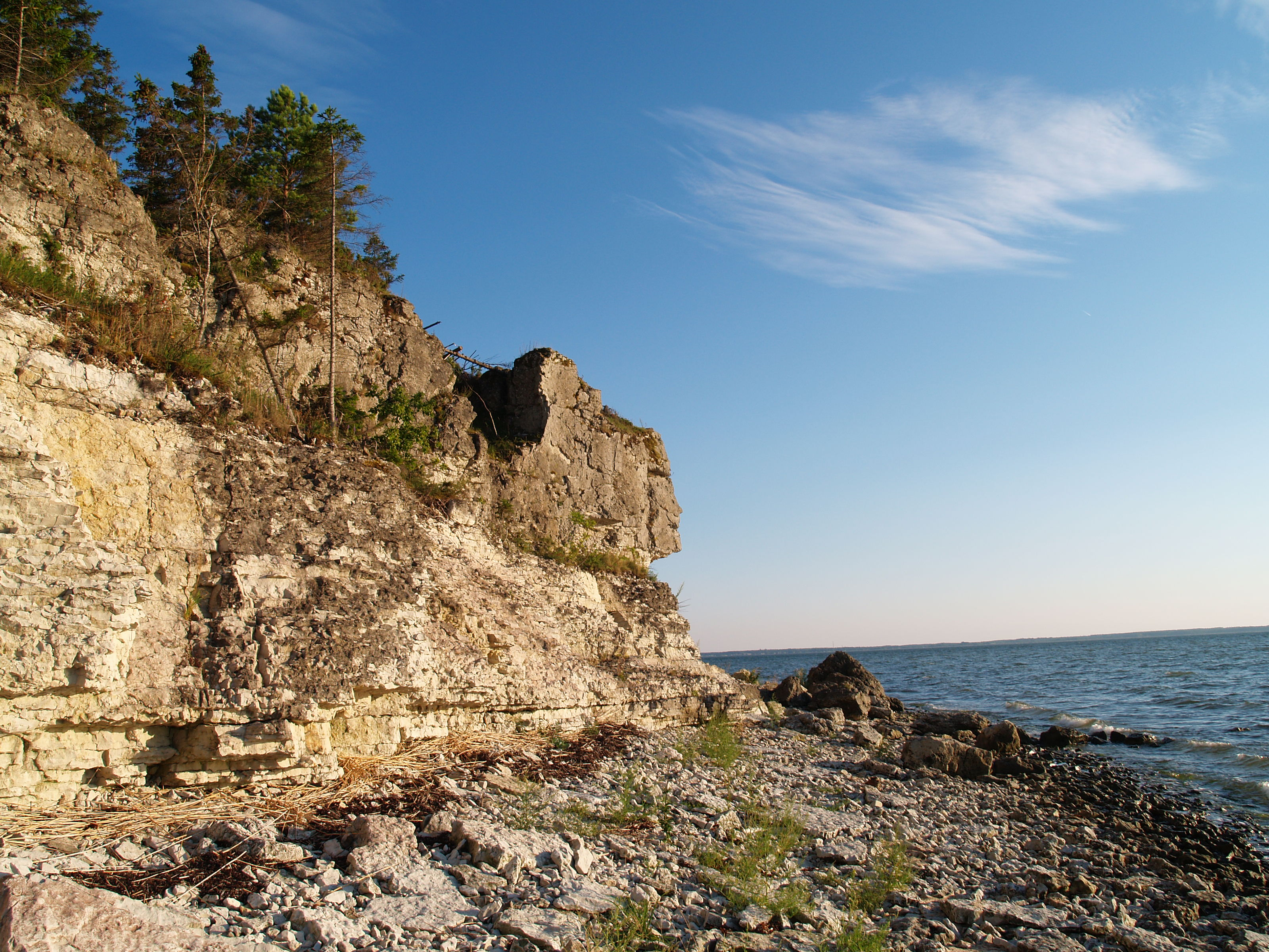 Cliff of Kesse. You could also see a cliff's edge that resembles humans face. This is known as "Kesselaiu valvur" ('Guard of Kesselaid').